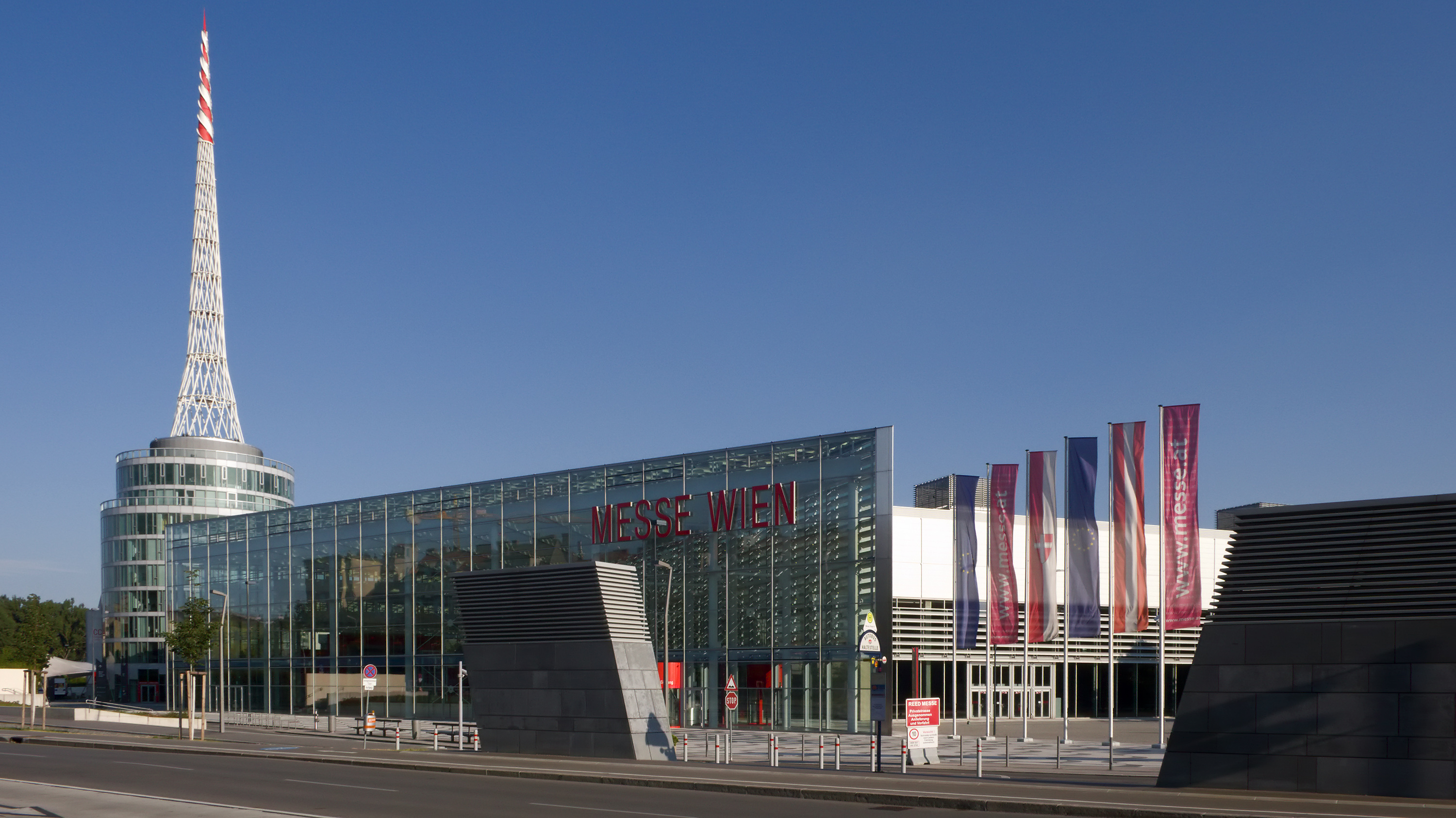 Exhibitions and Congress Center :de:Messe Wien in Vienna Leopoldstadt